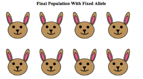 The rabbit population after the brown allele becomes fixed.